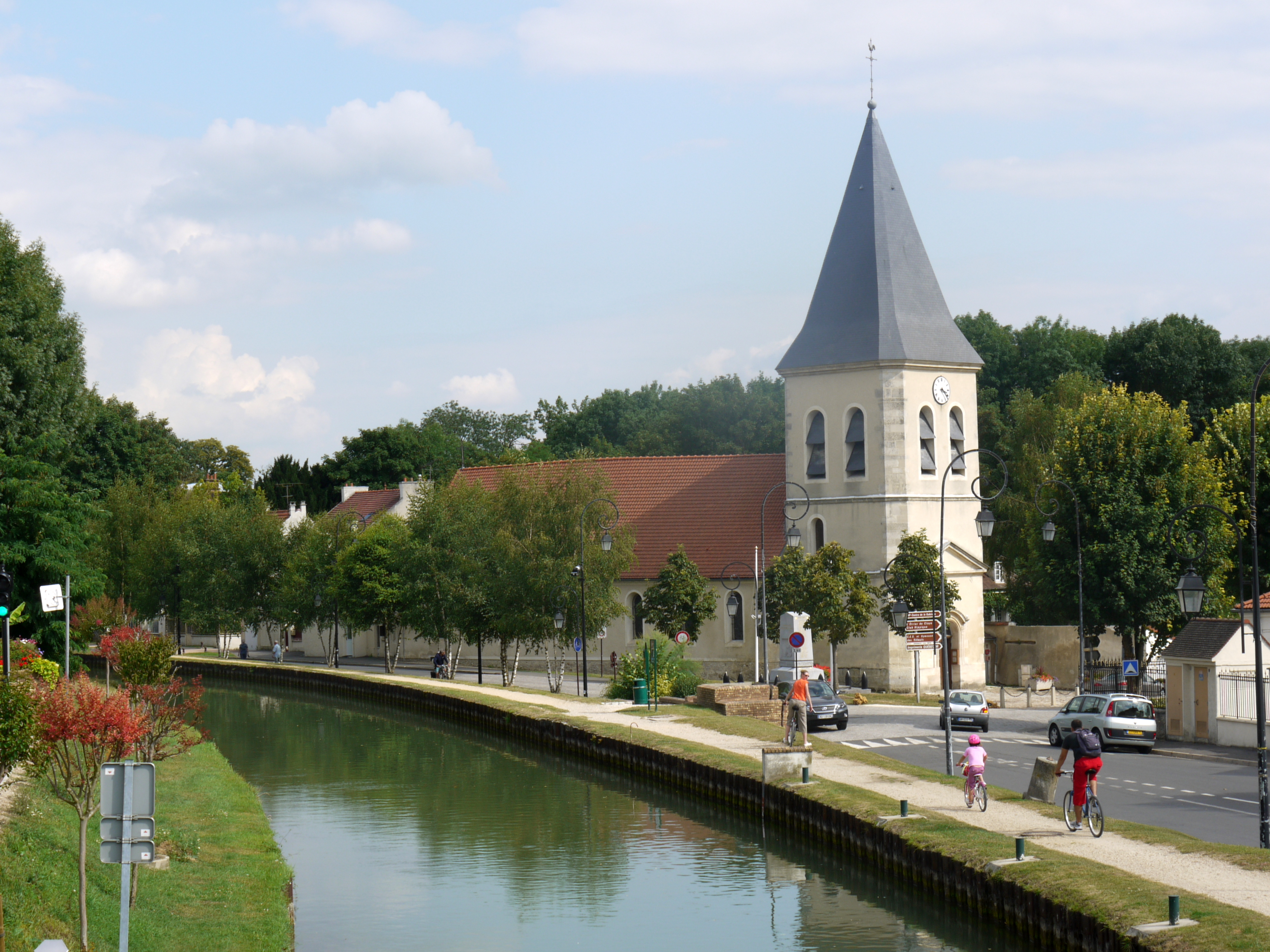 The canal de l'Ourcq and the church of Claye-Souilly, Ile de France, France